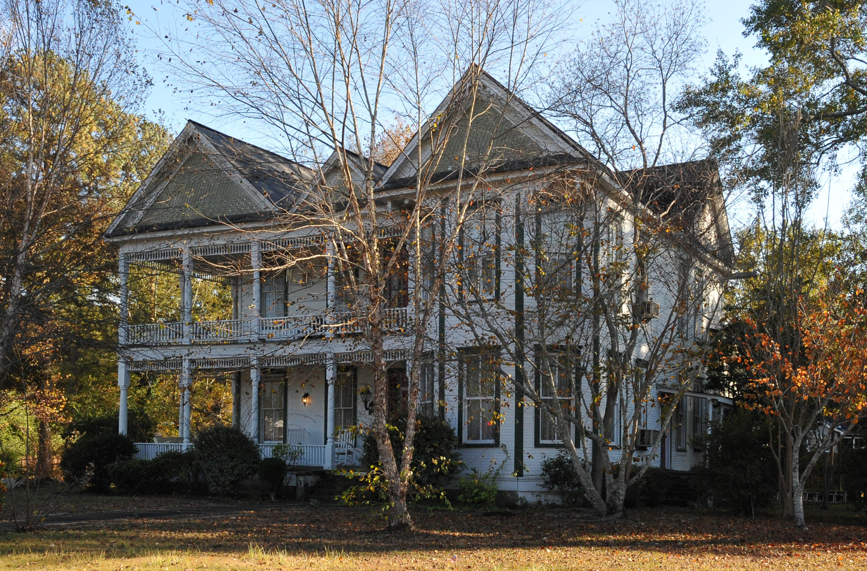 VICTORIAN QUEEN ANNE CIRCA 1900